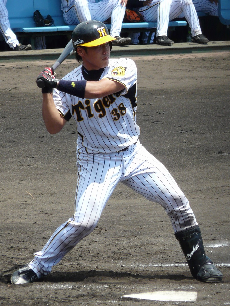 Hanshin Tigers/Ryouhei Hashimoto